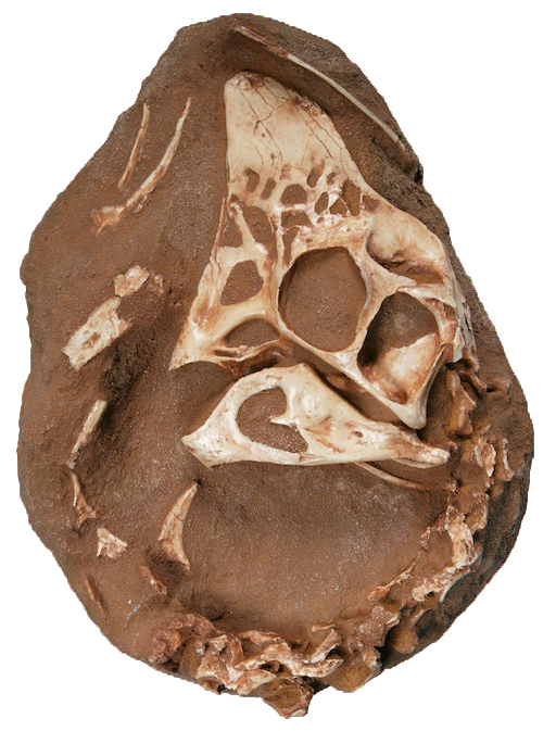 A cast of an undescribed oviraptorid skull in the permanent collection of The Children’s Museum of Indianapolis